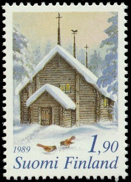 Finland Christmas issue 1989. Design by artist Paavo Huovinen.